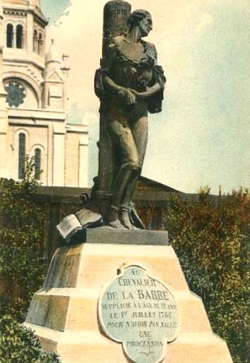 Color-tinted French postcard circa 1906. Monument to the Chevalier de La Barre - Paris, 18th arr. at Sacré-Cœur de Montmartre (later relocated in 1926 and later melted by the Nazi Germany Third Reich occupation army. Age spots were digitally corrected with GIMP photo editor.